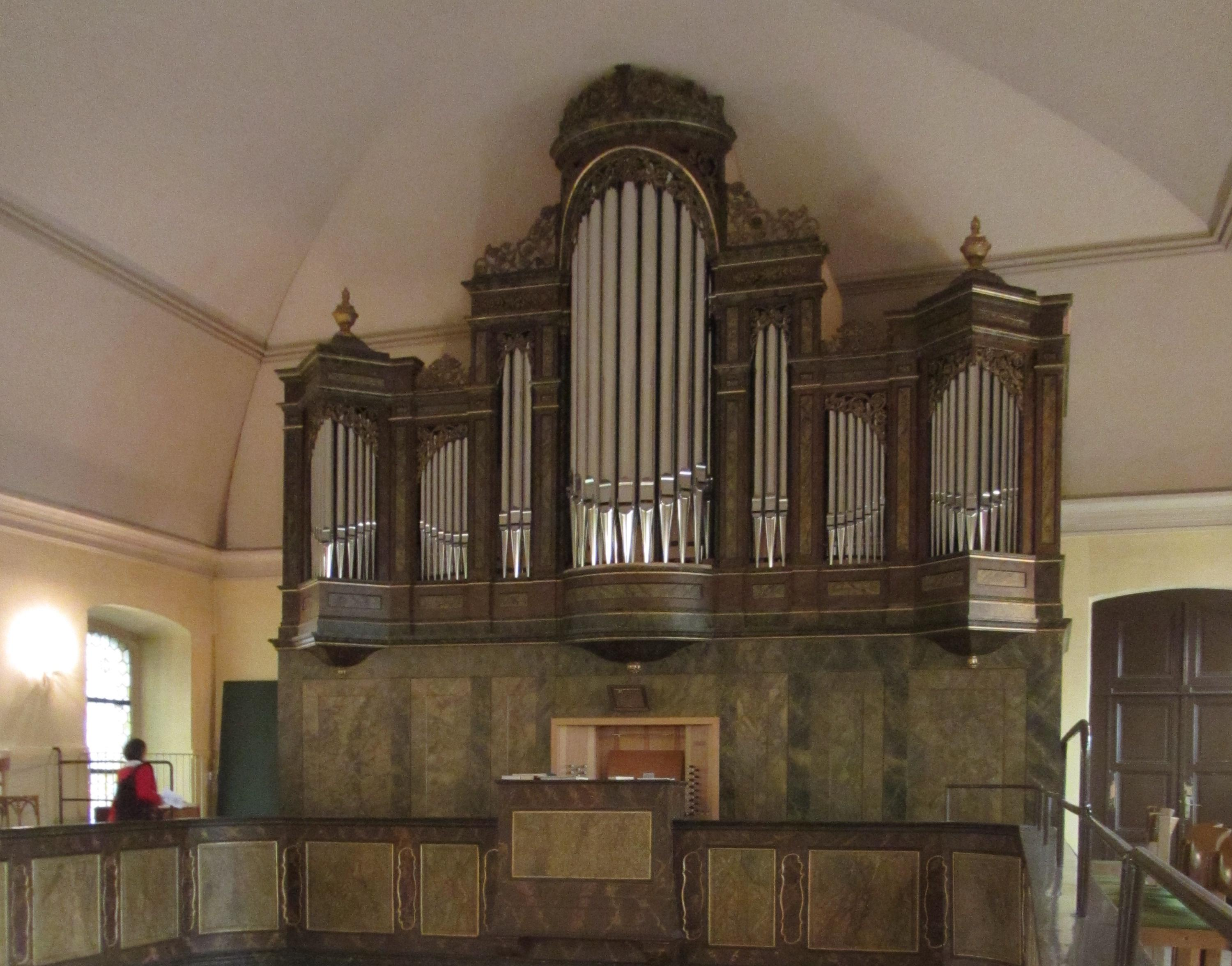 Organ of Johanniskirche in Frankfurt-Bornheim, Germany. The organ was built by Karl Schuke Berliner Orgelbauwerkstatt GmbH in 2008. using the original prospect and 4 of the orginal registers